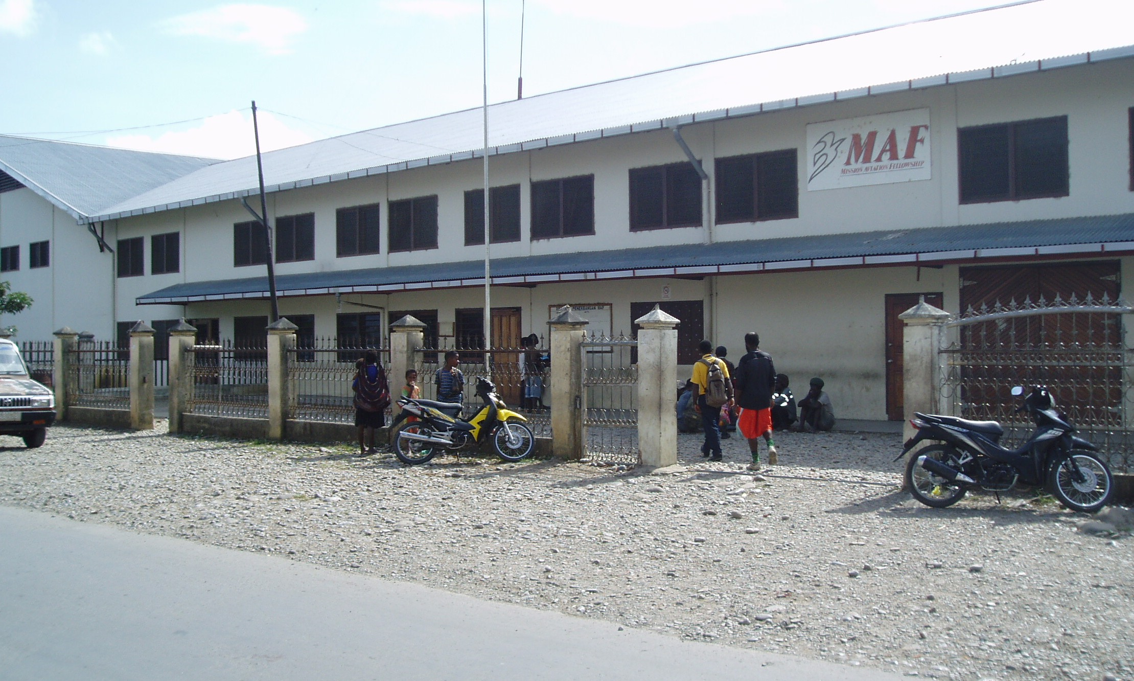 MAF Compound near Wamena Airport, Papua, Indonesia